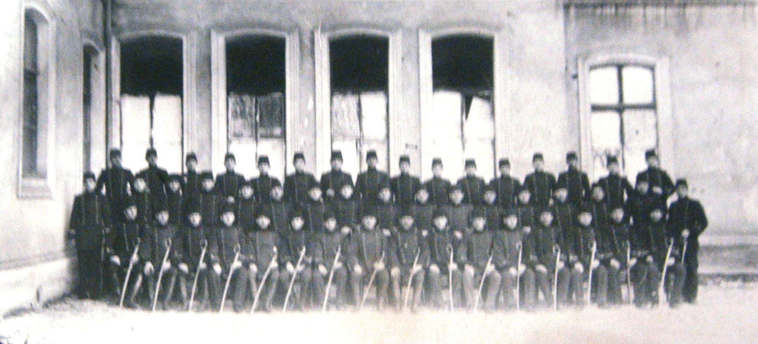 Cadets from the Military Academy of the Turkish army and Kemal Ataturk, taken in front of the Academy. Bitola 1909 (Damaged glass plate) This media file is produced by Wikipedian in Residence in Category:Wikipedian in Residence at DARM in 2016.